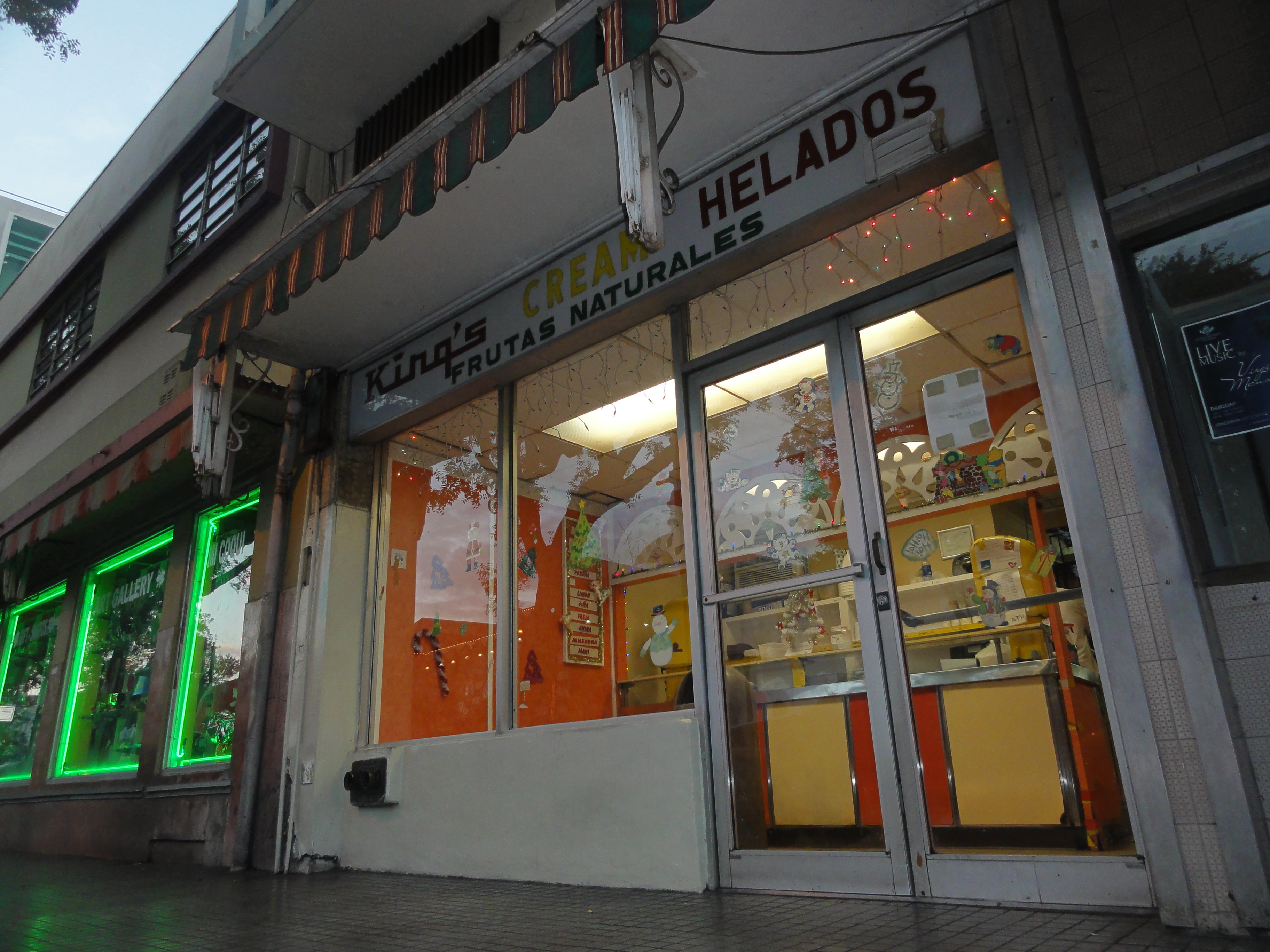 King's Cream, mejor conocido como Los Chinos de Ponce (07197)